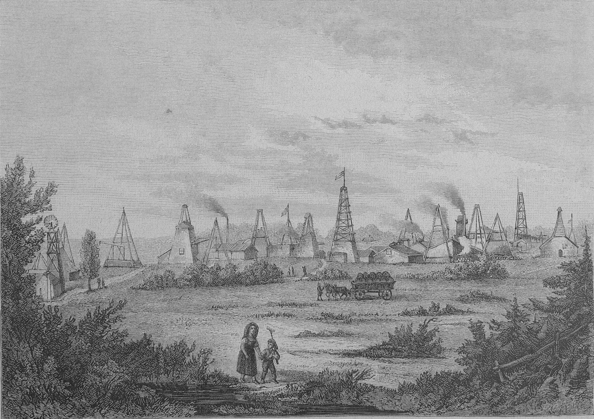 caption: "Oelheim; deutsche Petroleum-Bohrwerke bei Peine. Nach einer Skizze von Alfred Schütze."